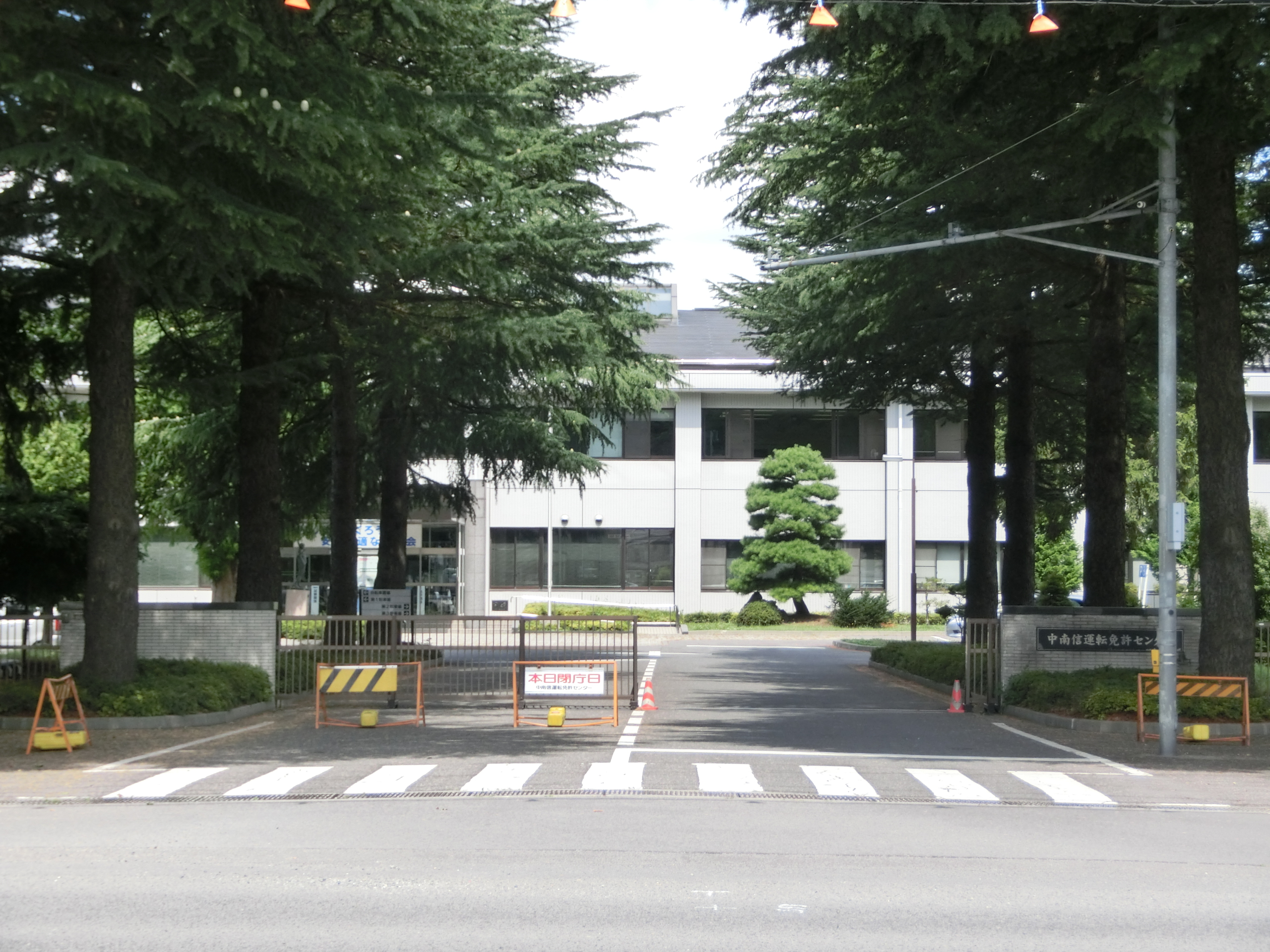 Chunanshin Driver's License Center